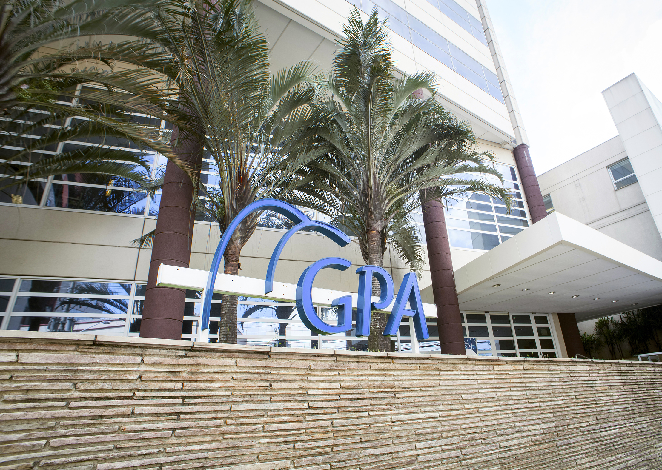 Logo GPA - Fachada Sede